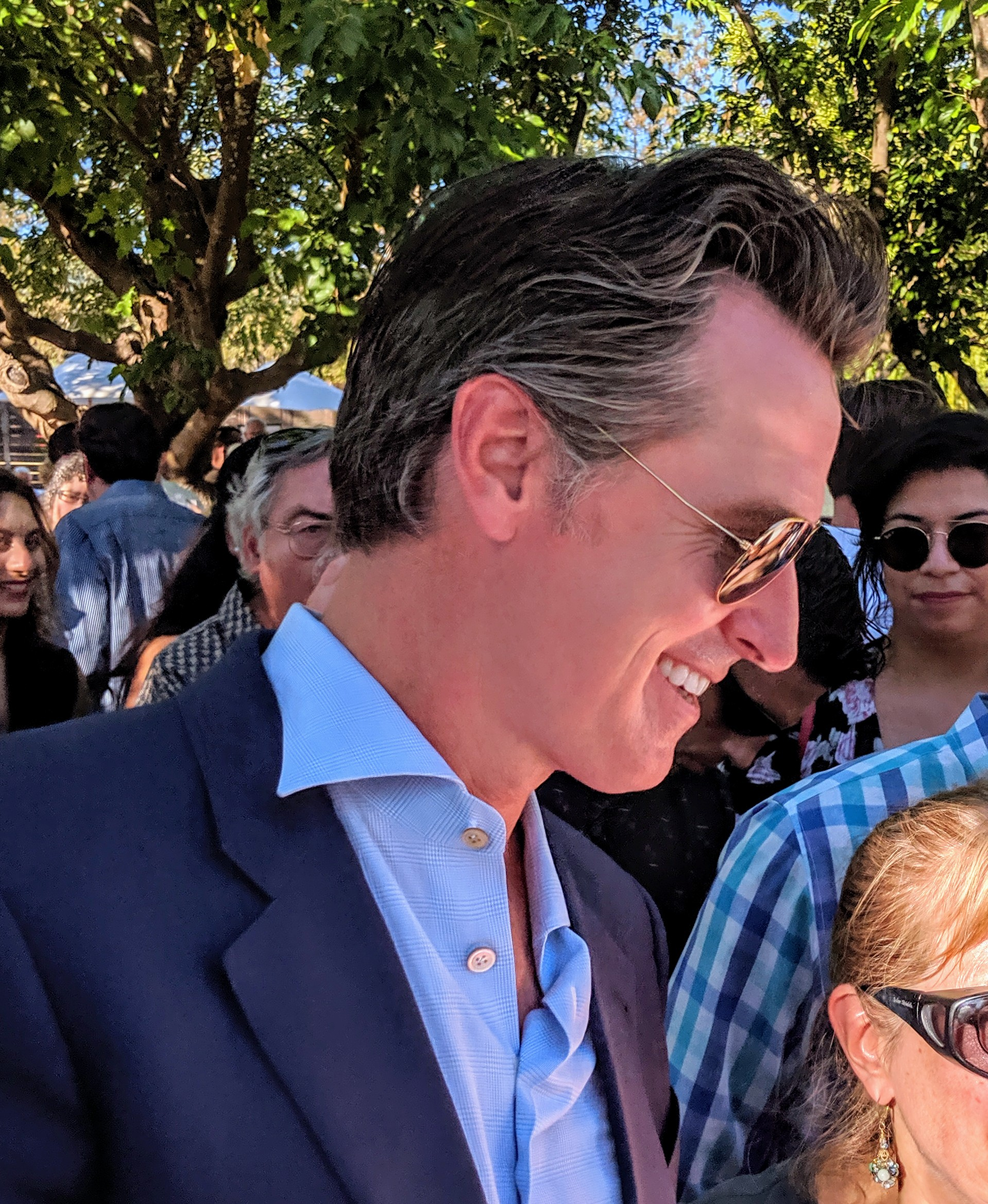 Governor Gavin Newsom attended a Democratic Party fundraising event in St. Helena, California on August 4, 2019. Photo by Jim Heaphy.